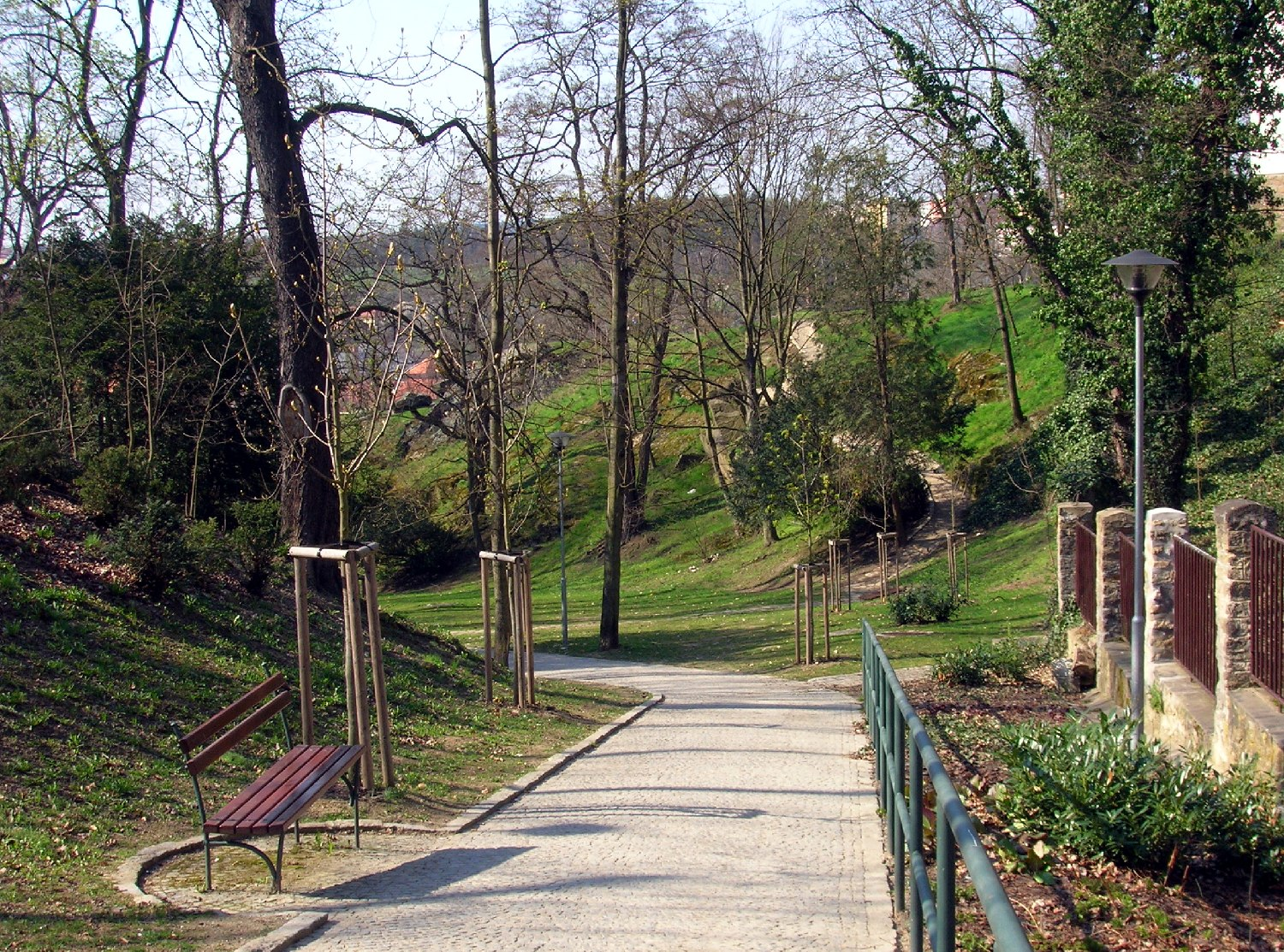 Třebíč-Jejkov. Mácha's gardens from the SE